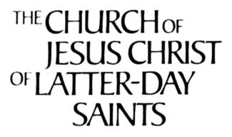 Logo of the Church of Jesus Christ of Latter-day Saints prior to 1995. In 1995 it was altered to emphasize the words "Jesus Christ".